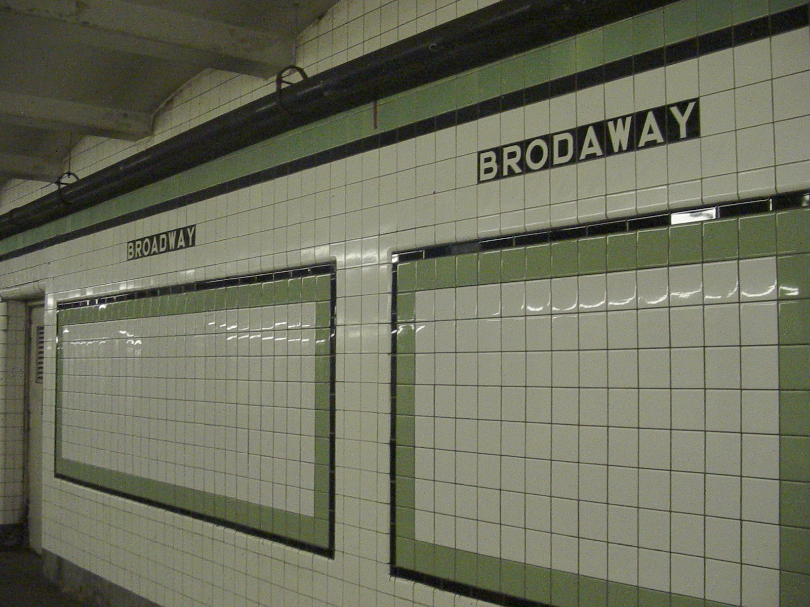 Correctly spelled and misspelled "Brodaway" station tiles at northbound platform of Broadway (IND Crosstown Line) station, January 2010